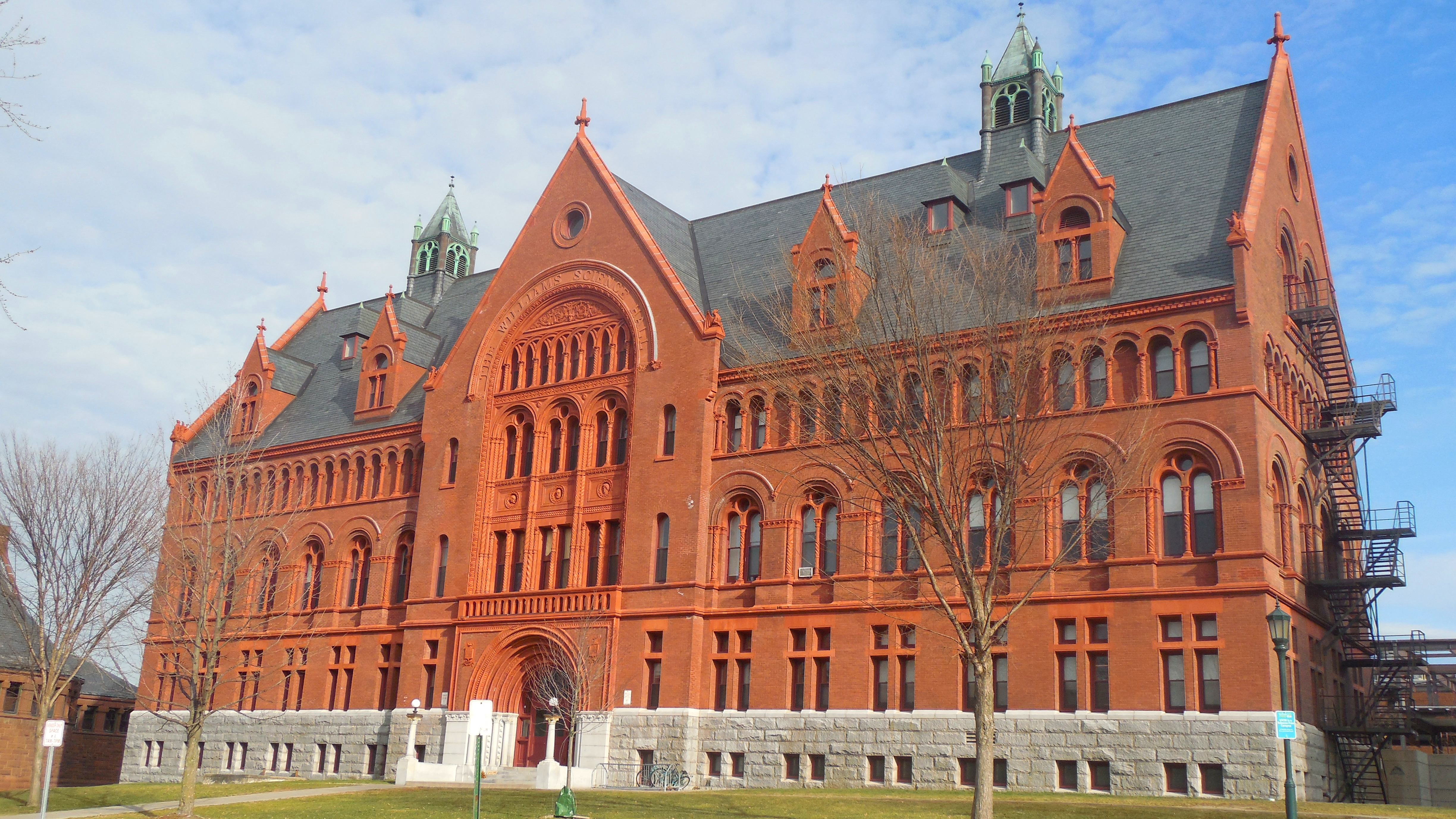 Williams Hall, University of Vermont